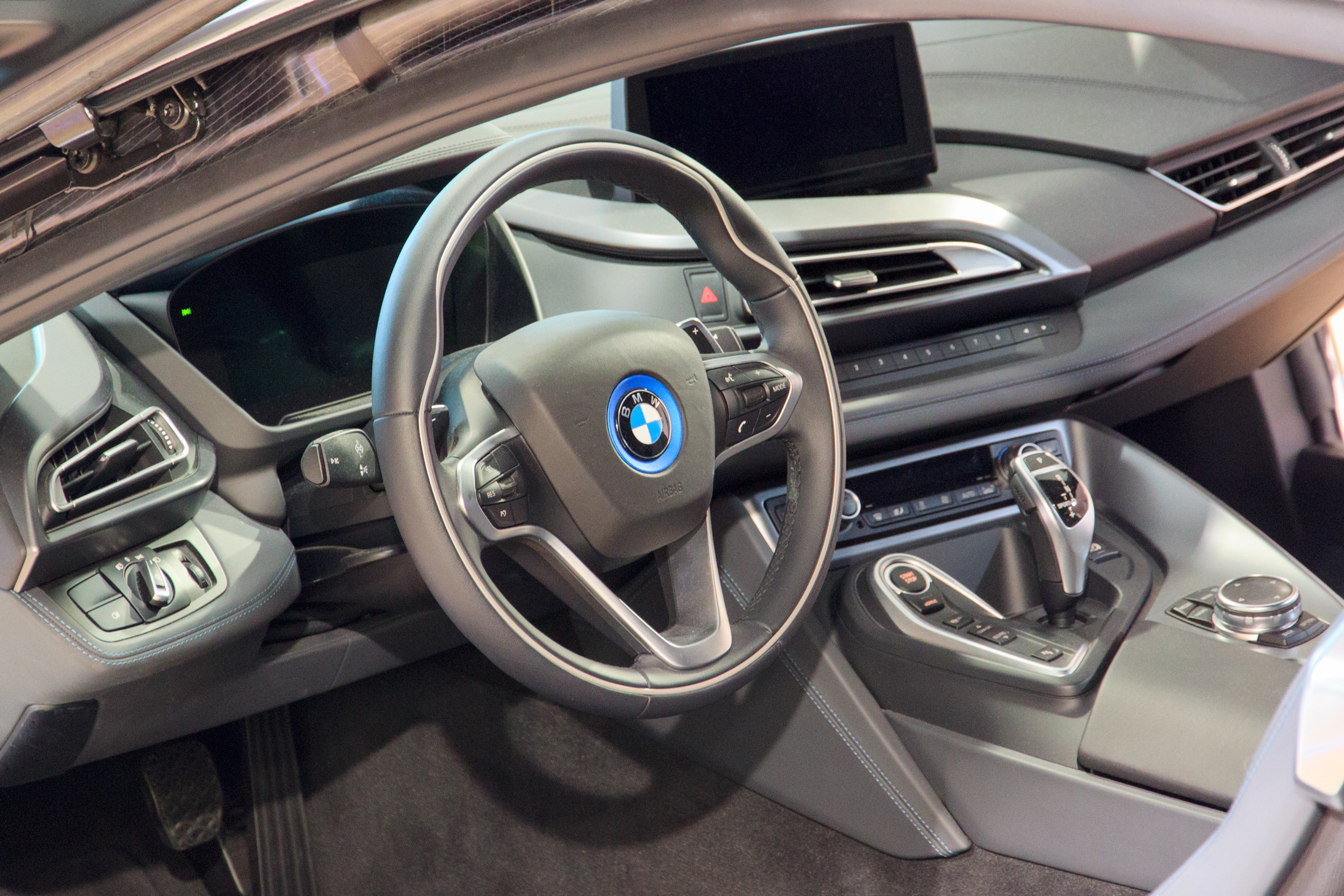 BMW i8 interior. Munich